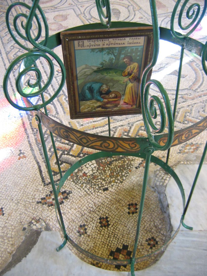 Jerusalem, Russian Monastery of Ascension on the Mount of Olives, Chapel of the Head of St. John the Baptist - The place where the head of John the Baptist was found, according to tradition.